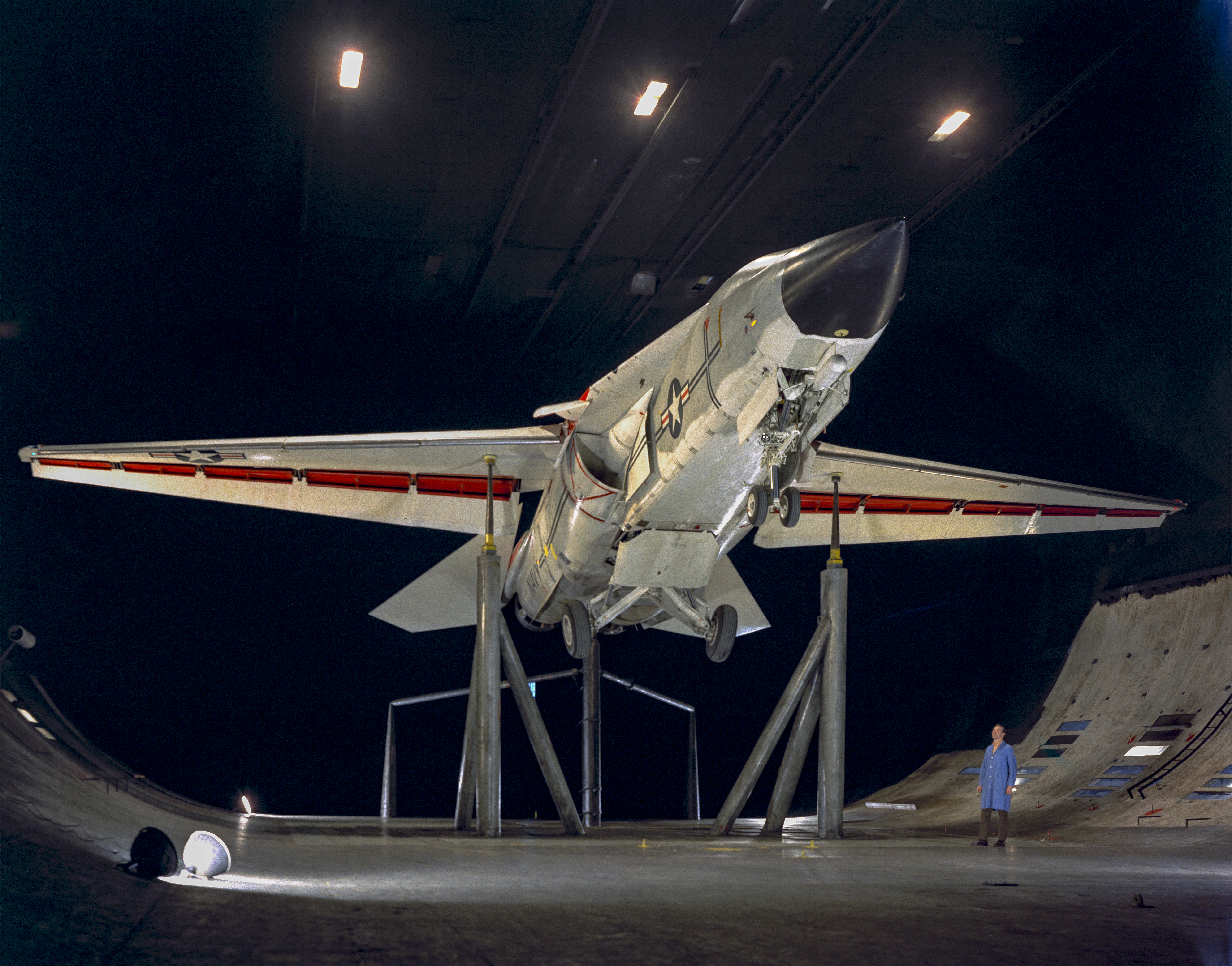 The General Dynamics F-111B, U.S. Navy BuNo 151974, at the NACA Ames Flight Research Center, NAS Moffett Field, California (USA), during full scale wind tunnel flight control tests. In 1970 the aircraft was dismantled at Moffett Field.